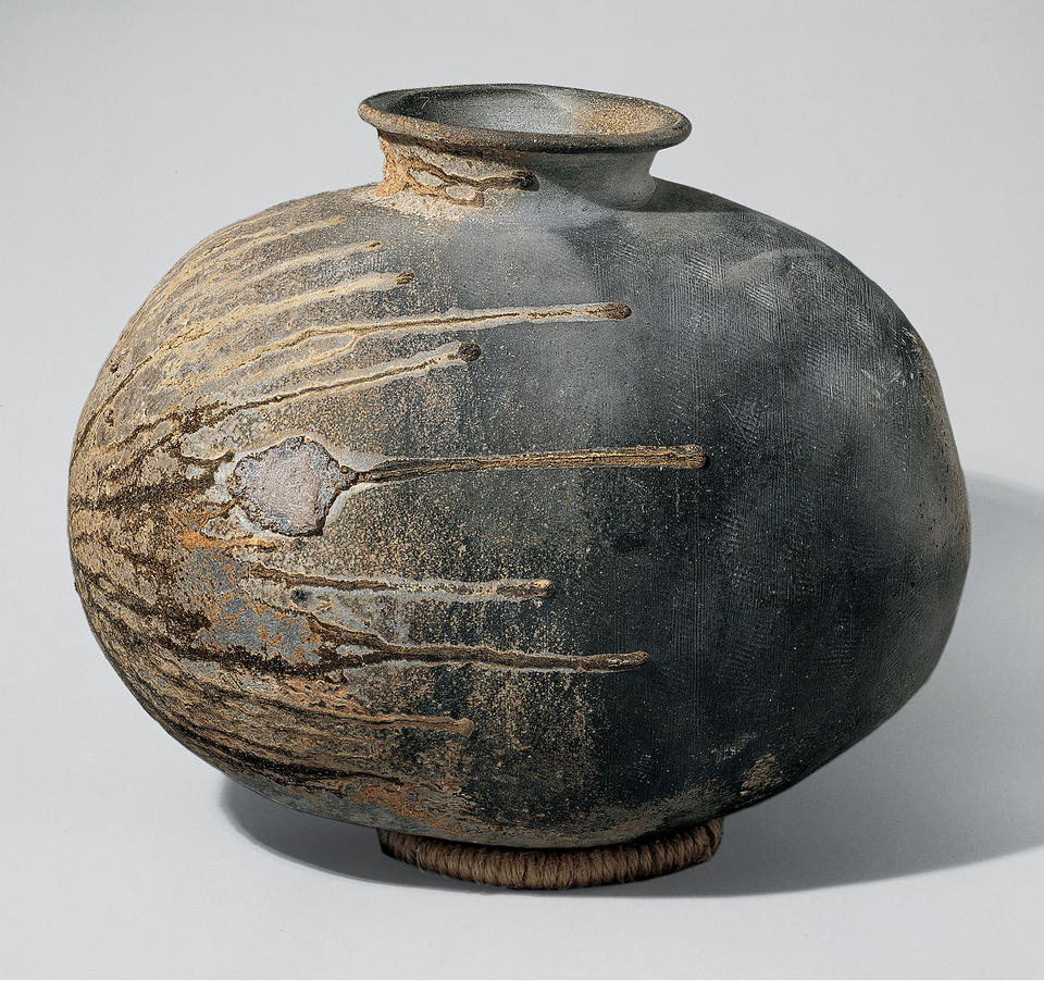 Japan; Bottle; Ceramics